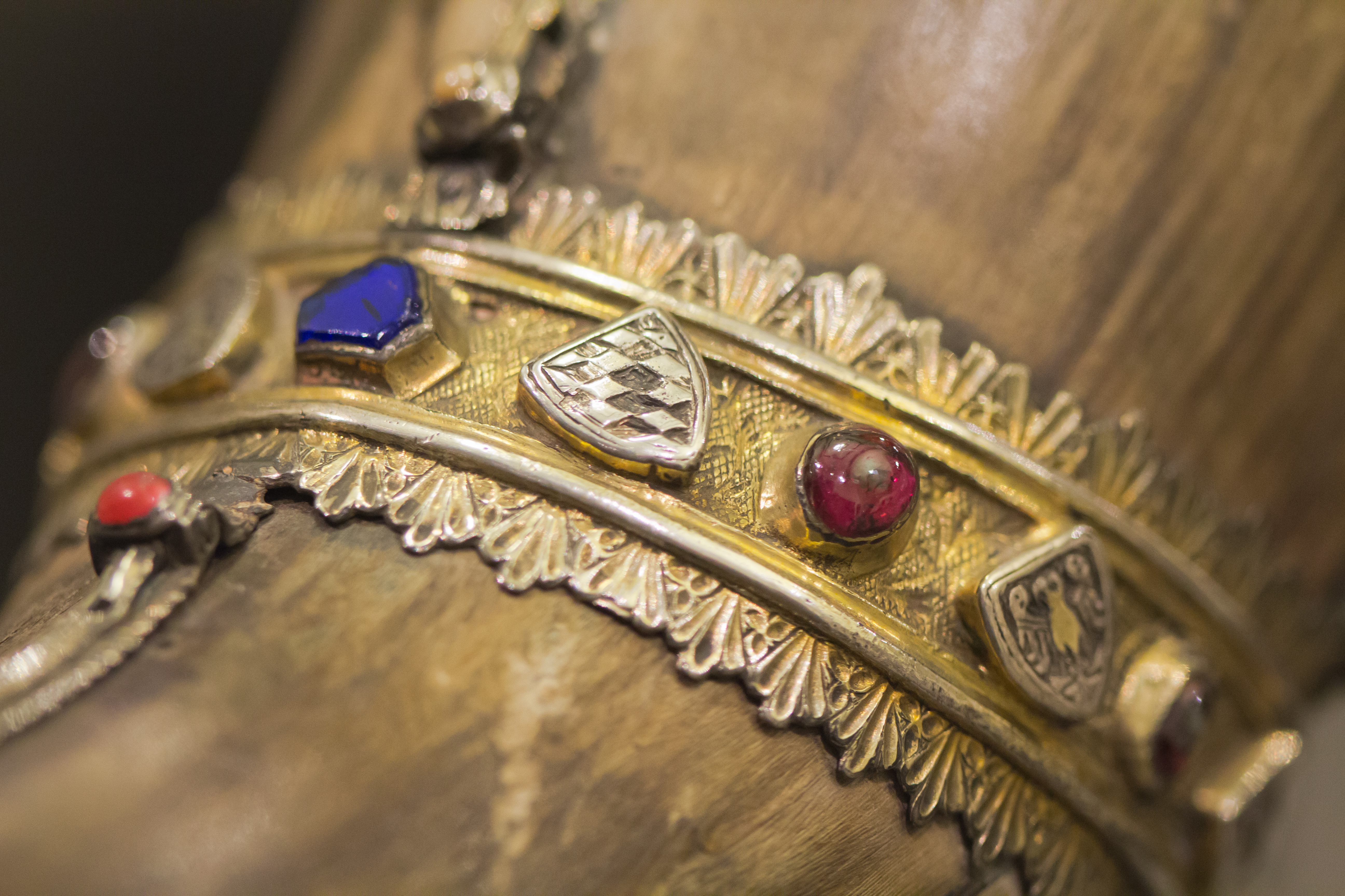 The so-called horn of Saint Cornelius in the romanesque church of St. Severin in Cologne, originally a drinking-horn, refurbished around the year 1500 as reliquary for several saints, including Saint Cornelius, Saint Cyprian, and the remains of Saint Ursula and her 11.000 virgin martyrs. It's exhibited in Museum Schnütgen in 2016 for a period of 2 months during renovation works in the church.